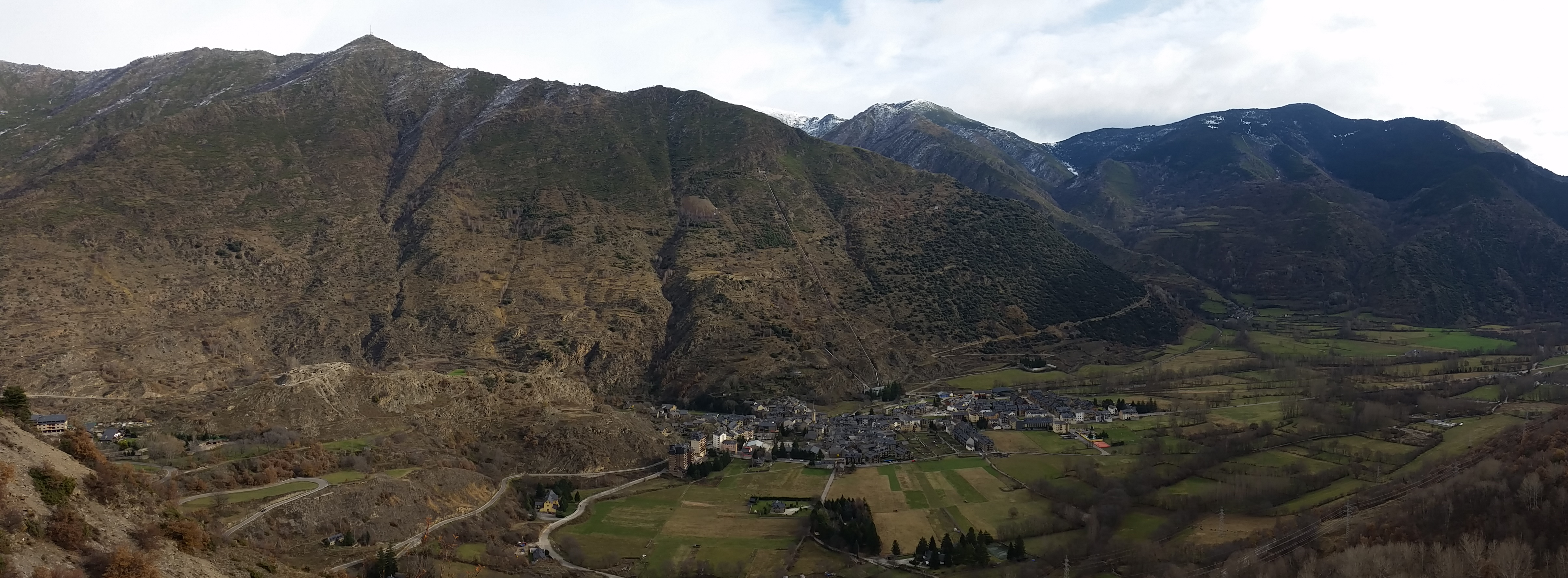 Panoramic view of Esterri d'Àneu